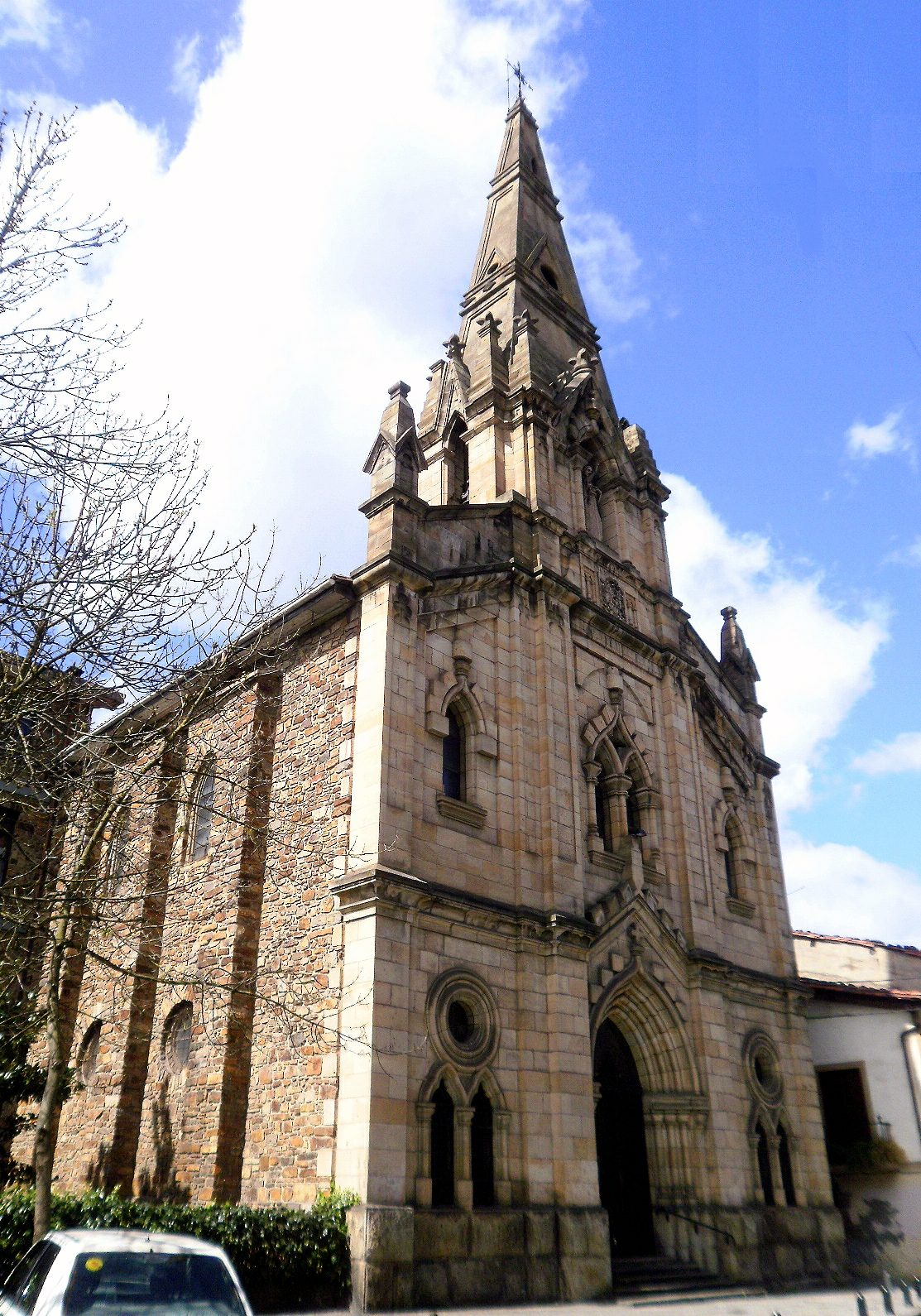 Iglesia de los Clérigos Regulares Lateranenses (Oñate)